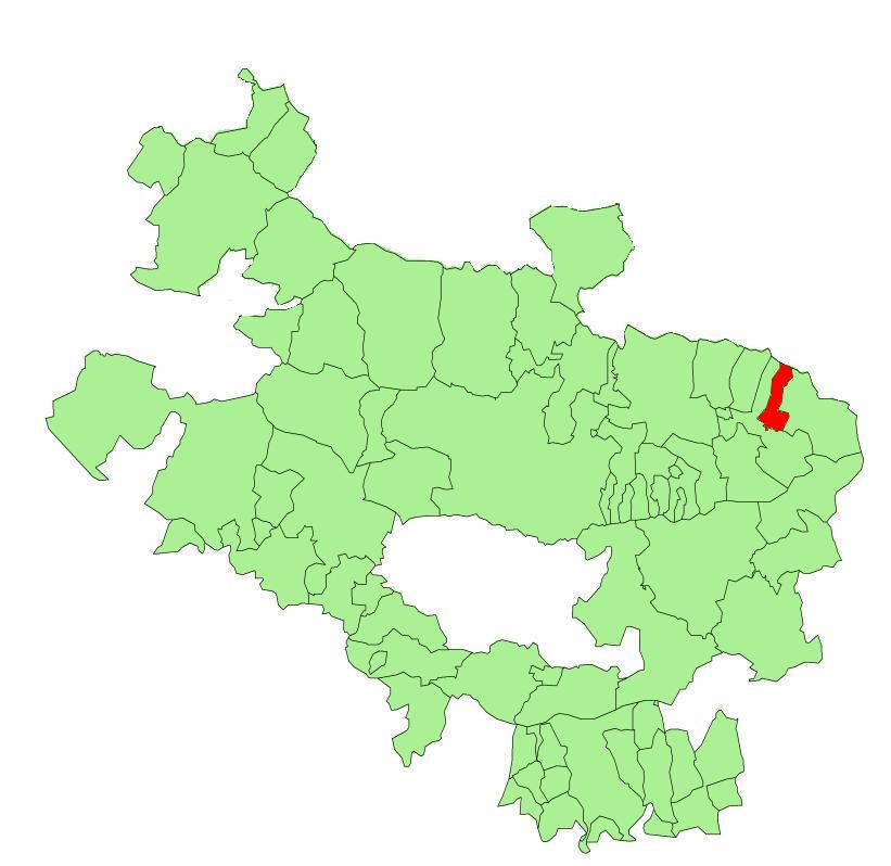 Zalduondo municipality in the province of Alava